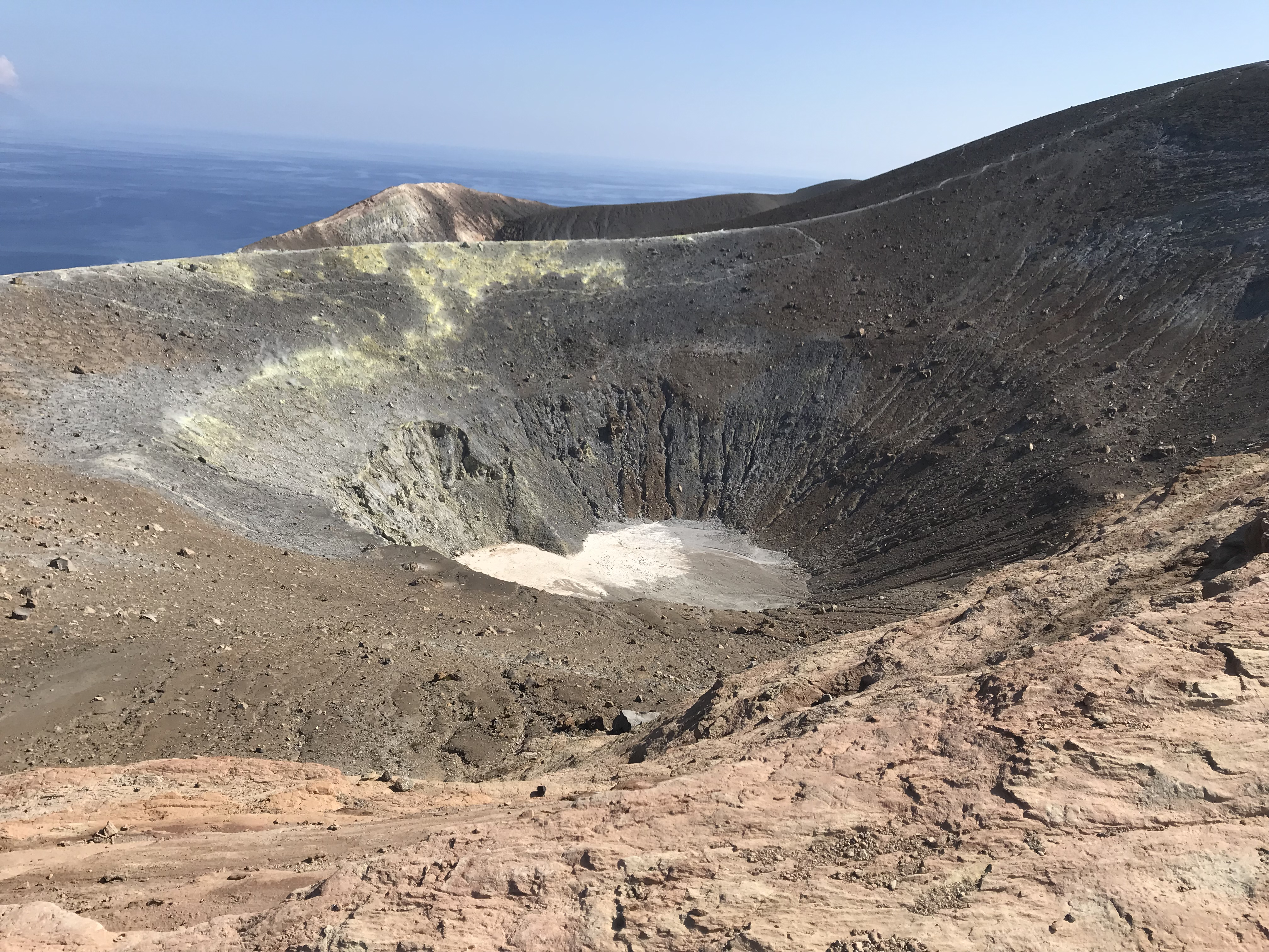 Vulcano - Crater of Fossa